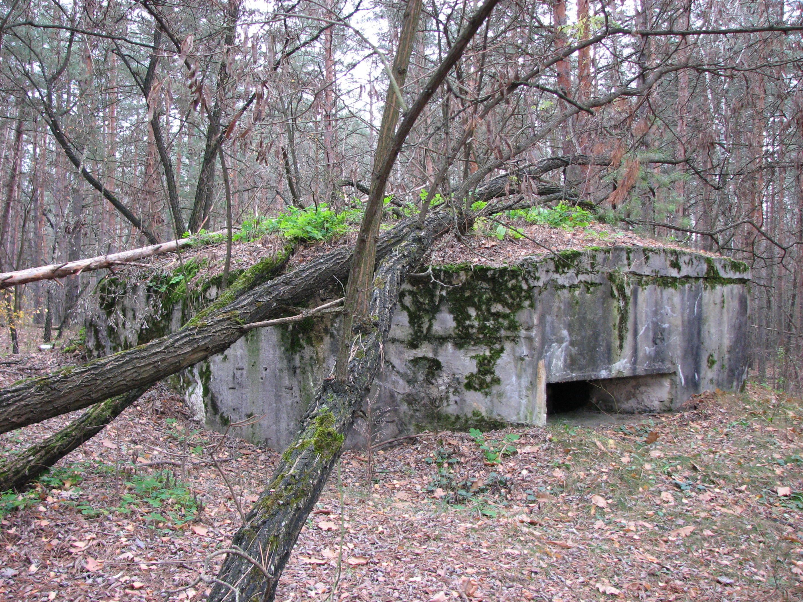 Pillbox 503 (Kyiv Fortified Region)